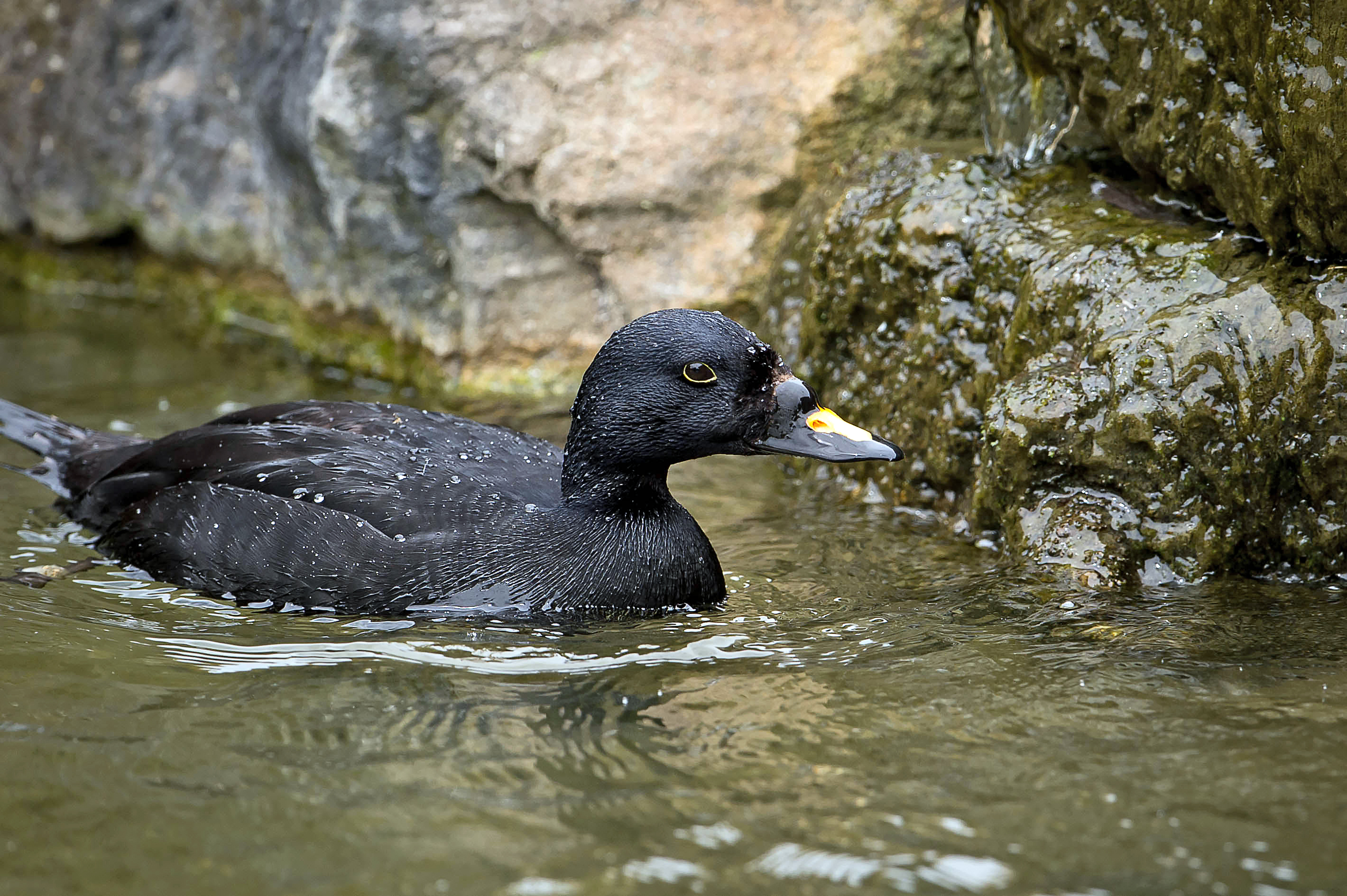 Common Scoter (Melanitta nigra). Wildfowl & Wetlands Trust (WWT) - Arundel, West Sussex